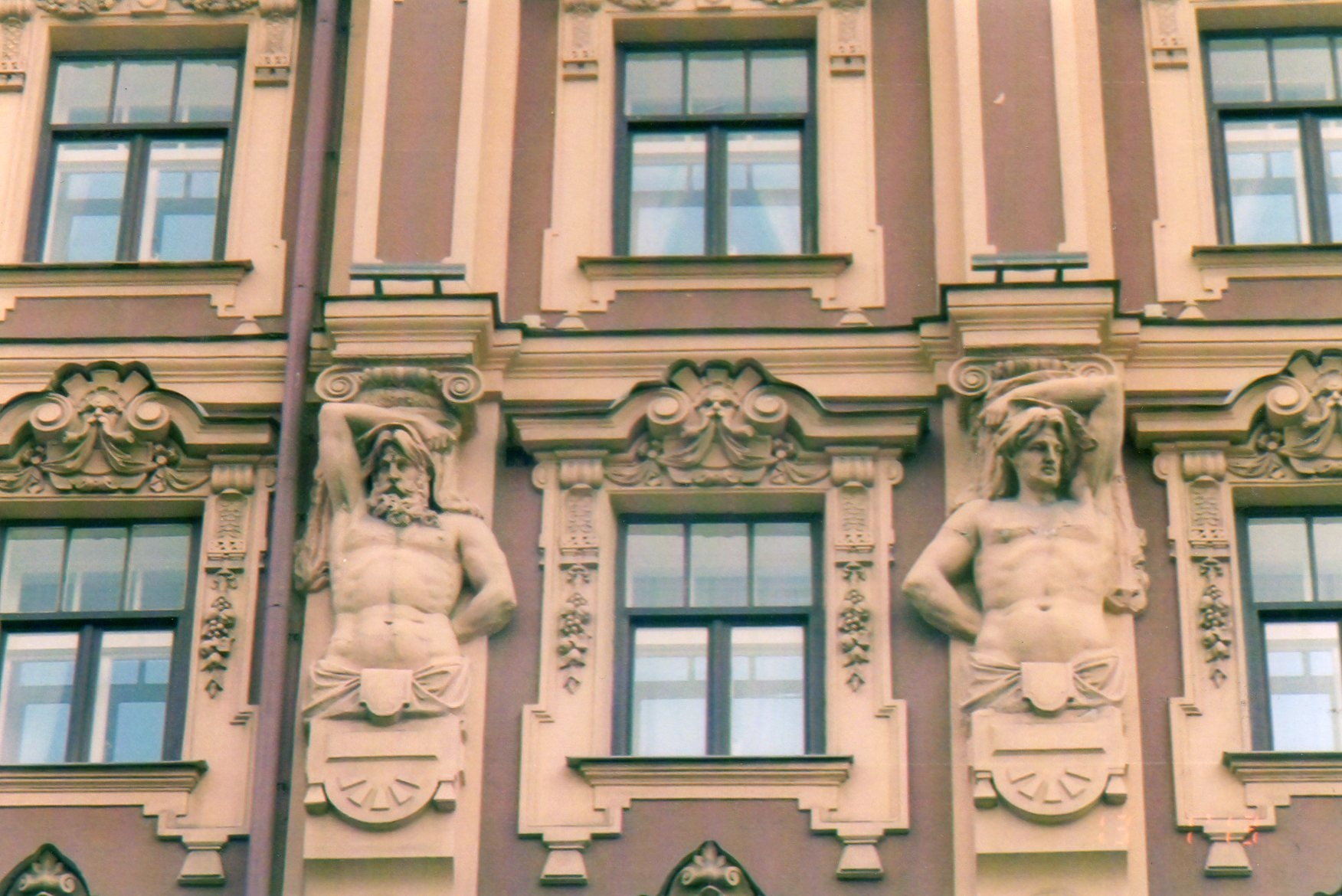 Grand Hotel Europe - St. Petersburg, Facade with Atlases